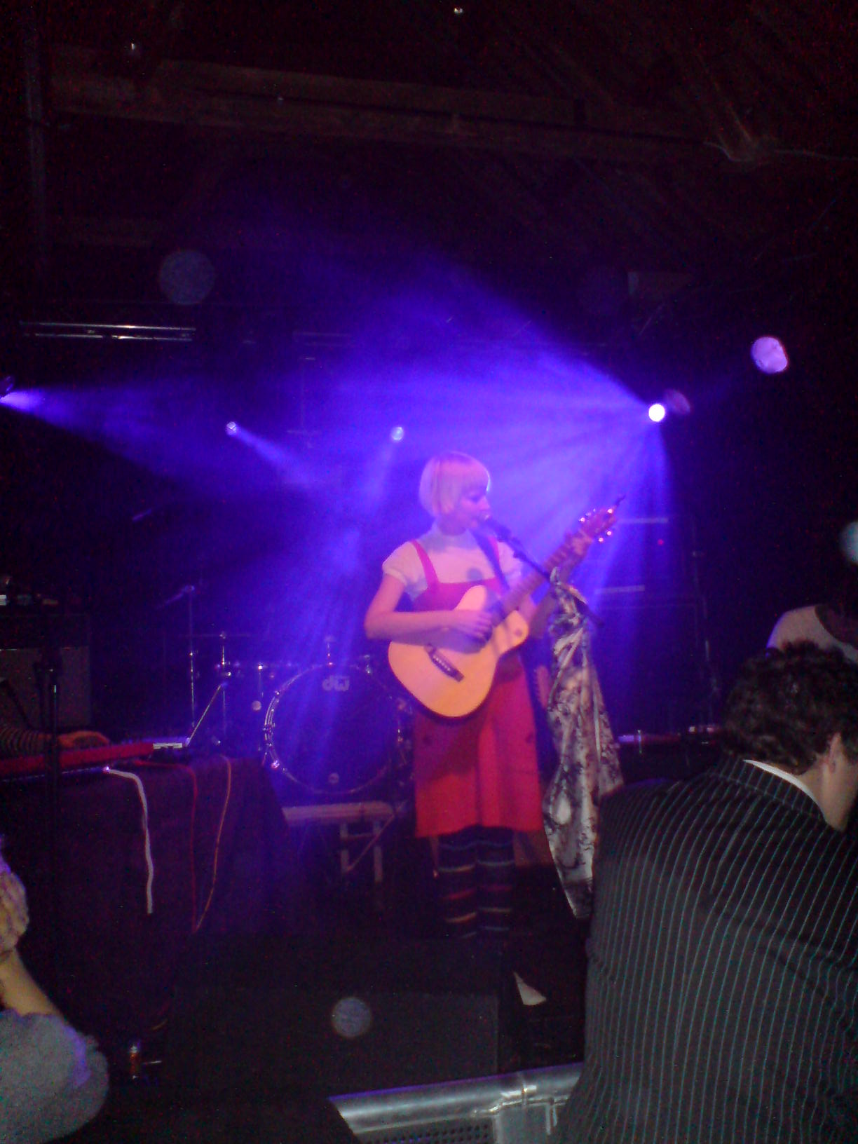 Rockettothesky playing live at Driv in Tromsø